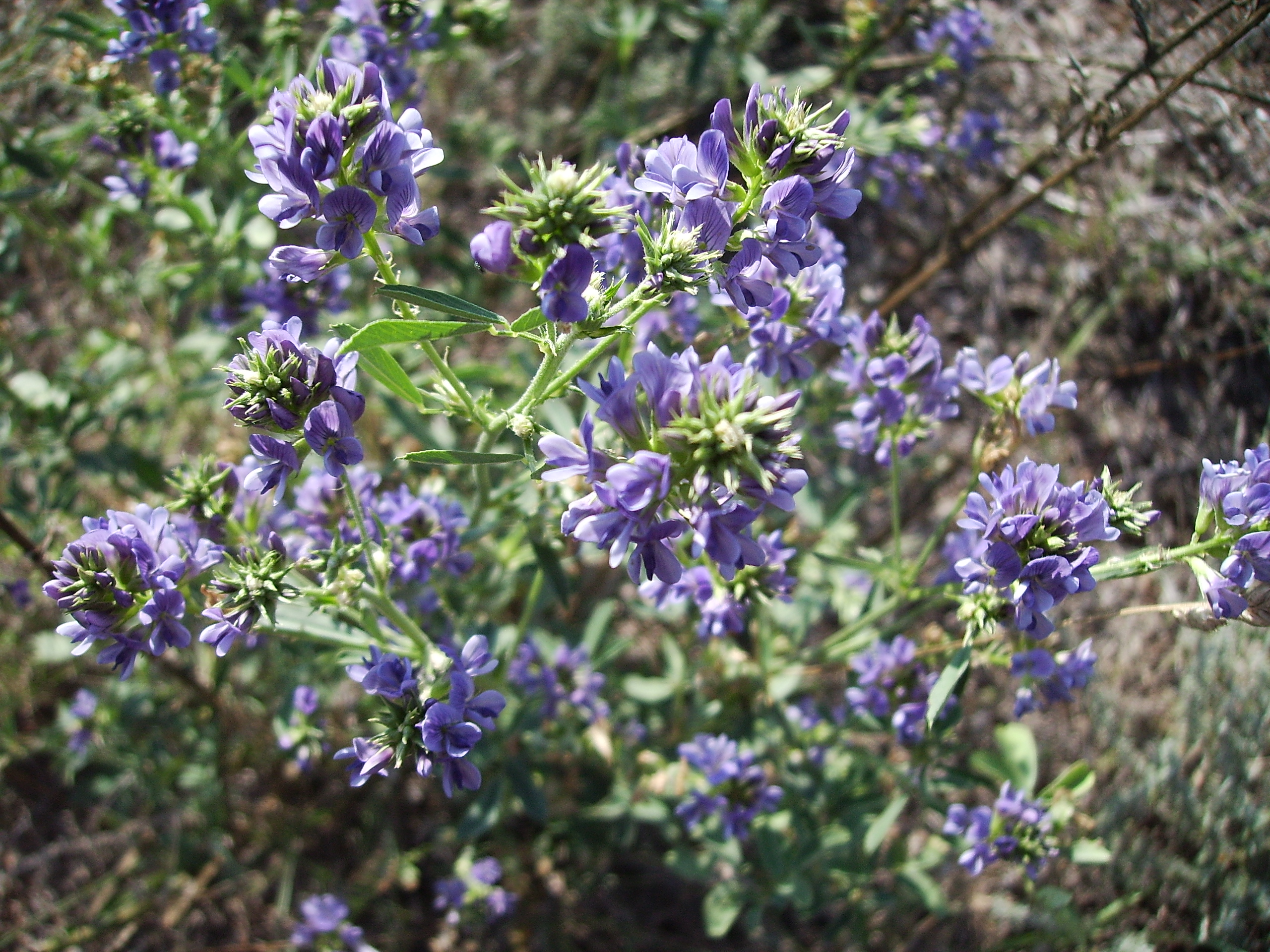 Image:Medicago sativa Alfals006.jpg My own work Casteltallat, Catalonia. September 4 2006